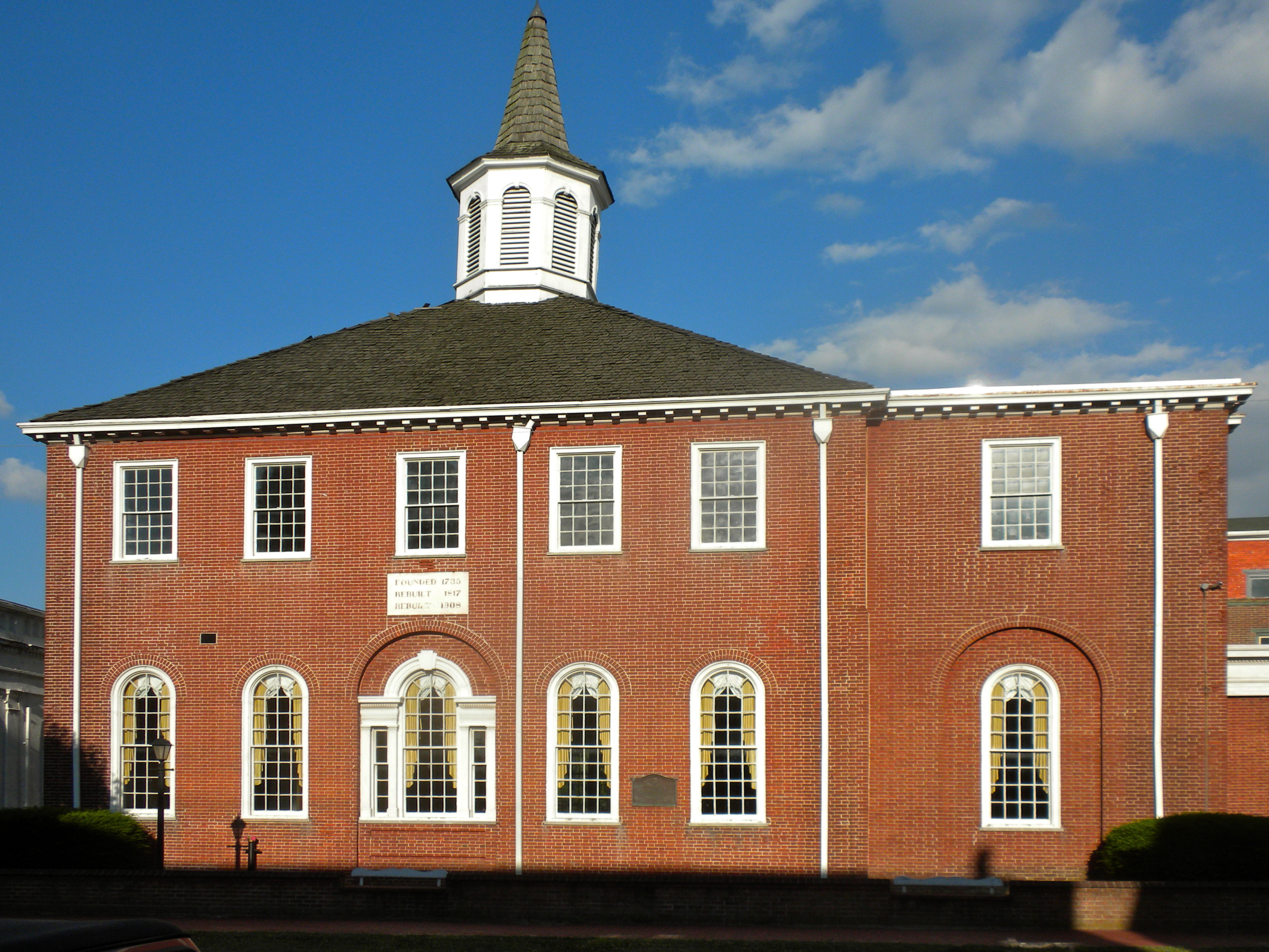 Salem Courthouse in Salem, New Jersey, photographed from Market Street. 2nd oldest active courthouse in the US. Entrance is now on Broadway (to the right) but that part of the building was added about 1815. In the NRHP Market Street Historic District in Salem, NJ